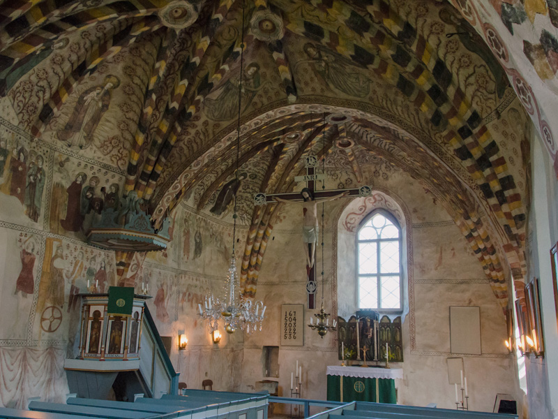 St Anne's church on Kumlinge, Finland